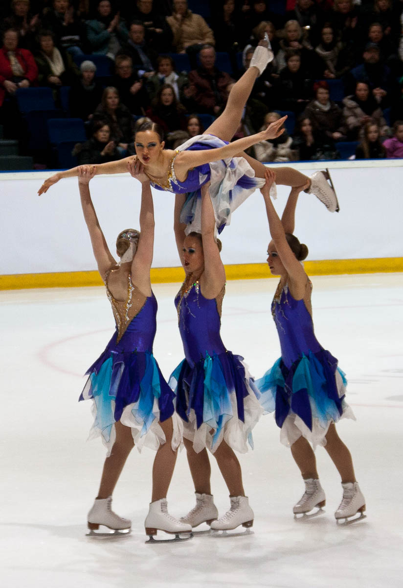 Rockettes, Finnish championships 2012 Helsinki